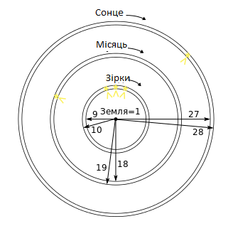 Космологія Анаксімандра.